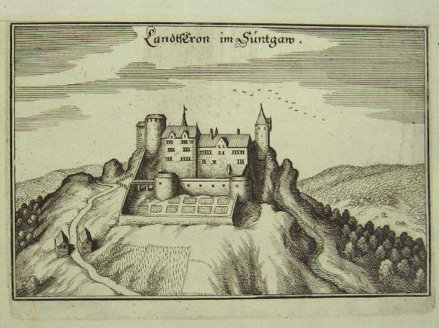 Landskron Castle, Alsace, France - copper engraving